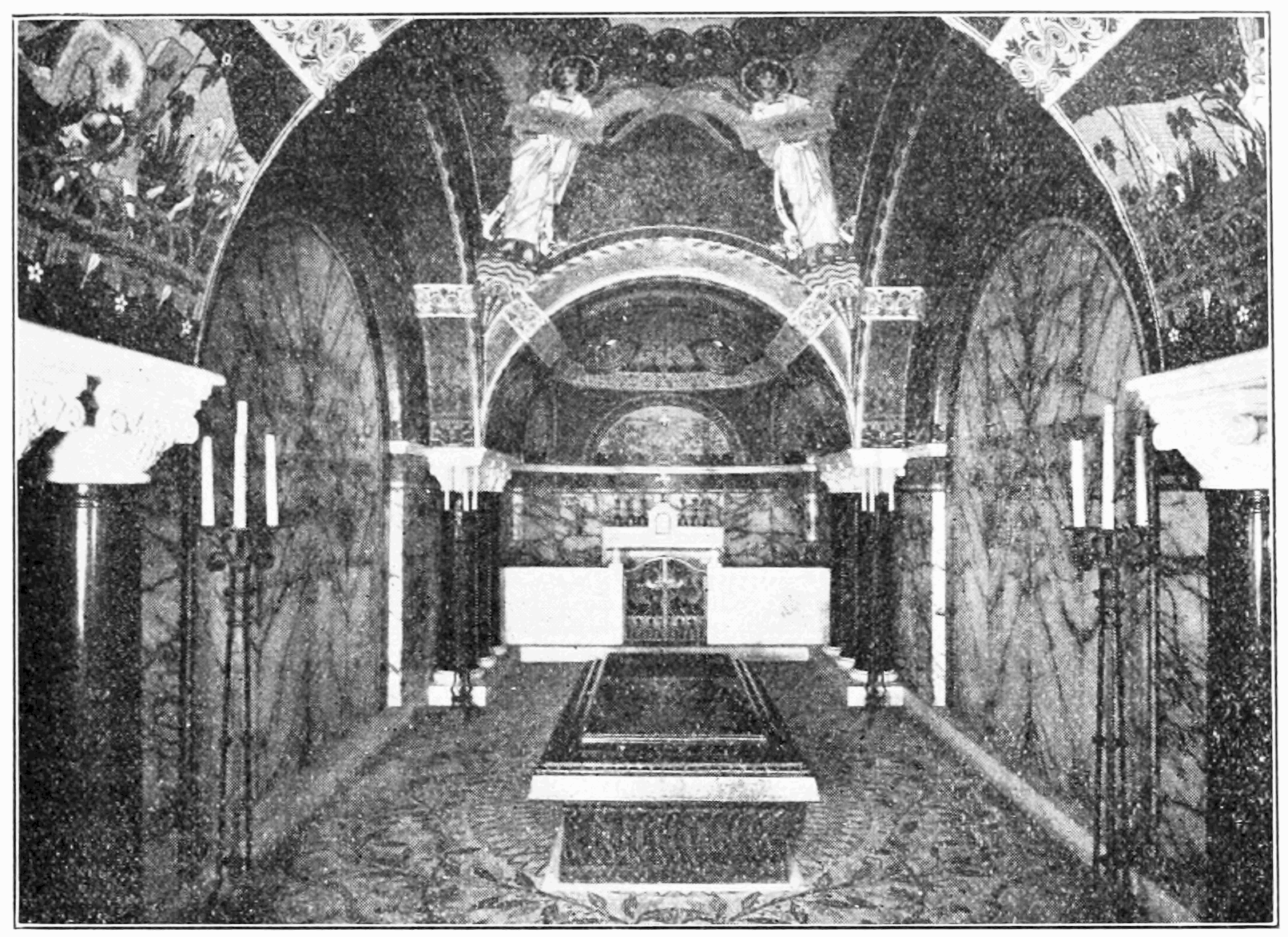 Tomb of Pasteur at the Institute